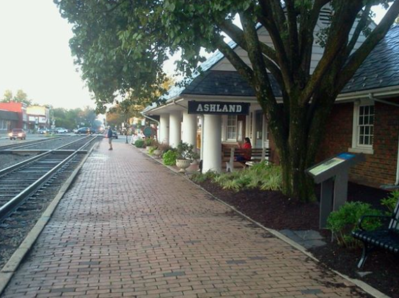 Known as "The Center of the Universe."